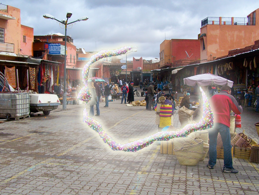 Migraine Aura/Scintillation Scotoma: A rough representation produced using an image editor, reproducing the effect Migraine Auras/Scintillating Scotomas have on the vision of a patient. The image is a model of what the author saw while he experienced the Scintillating Scotoma